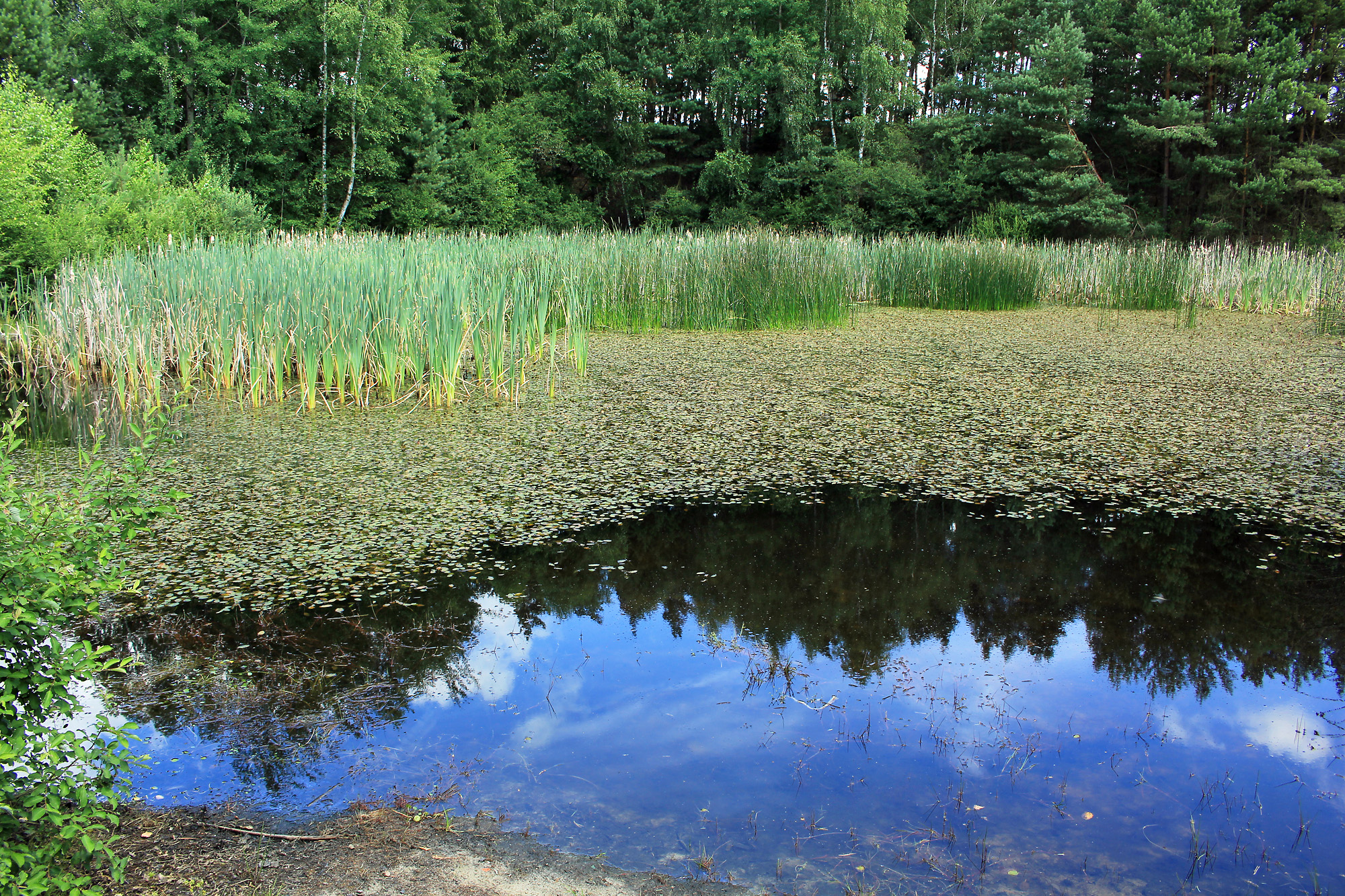 Pond in nature reserve near Langenbrügge, district Uelzen, north-eastern Lower Saxony, Germany.